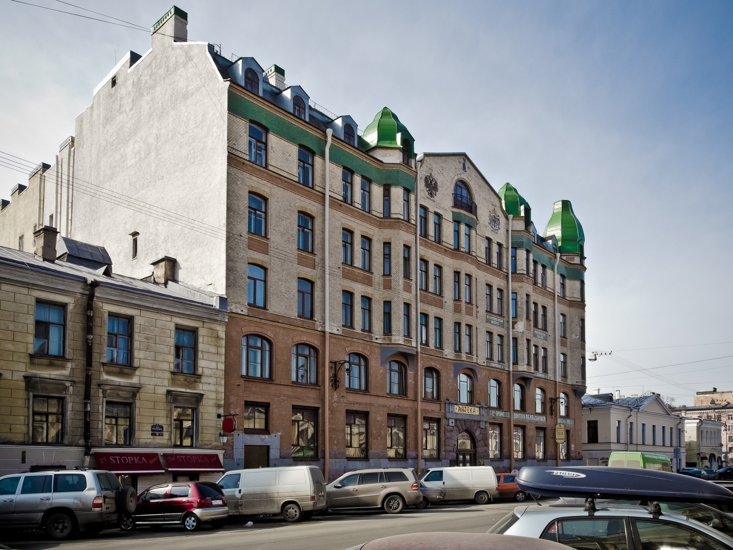 Poehl & sons pharmacy house in Saint Petersburg